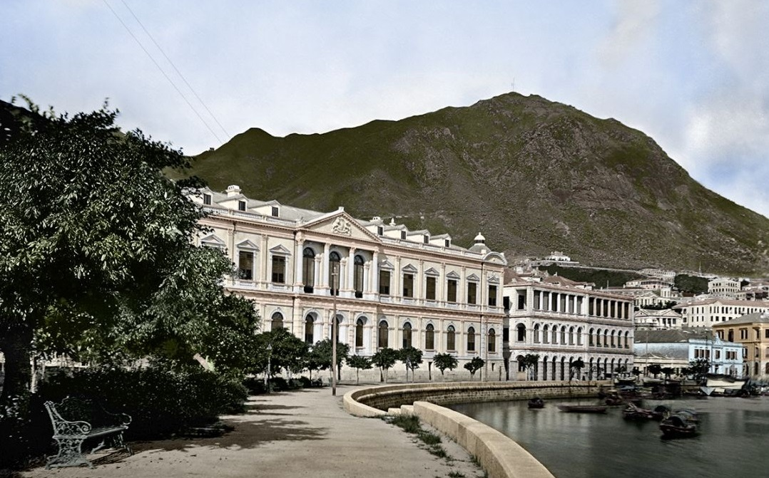 Photo of the Central Praya along the Queen's Road in 1869 originally taken by John Thomson. The color has been restored by Chris Whitehouse. The building behind the one in front is the Wardley House, also known as the 1st generation of HSBC building.